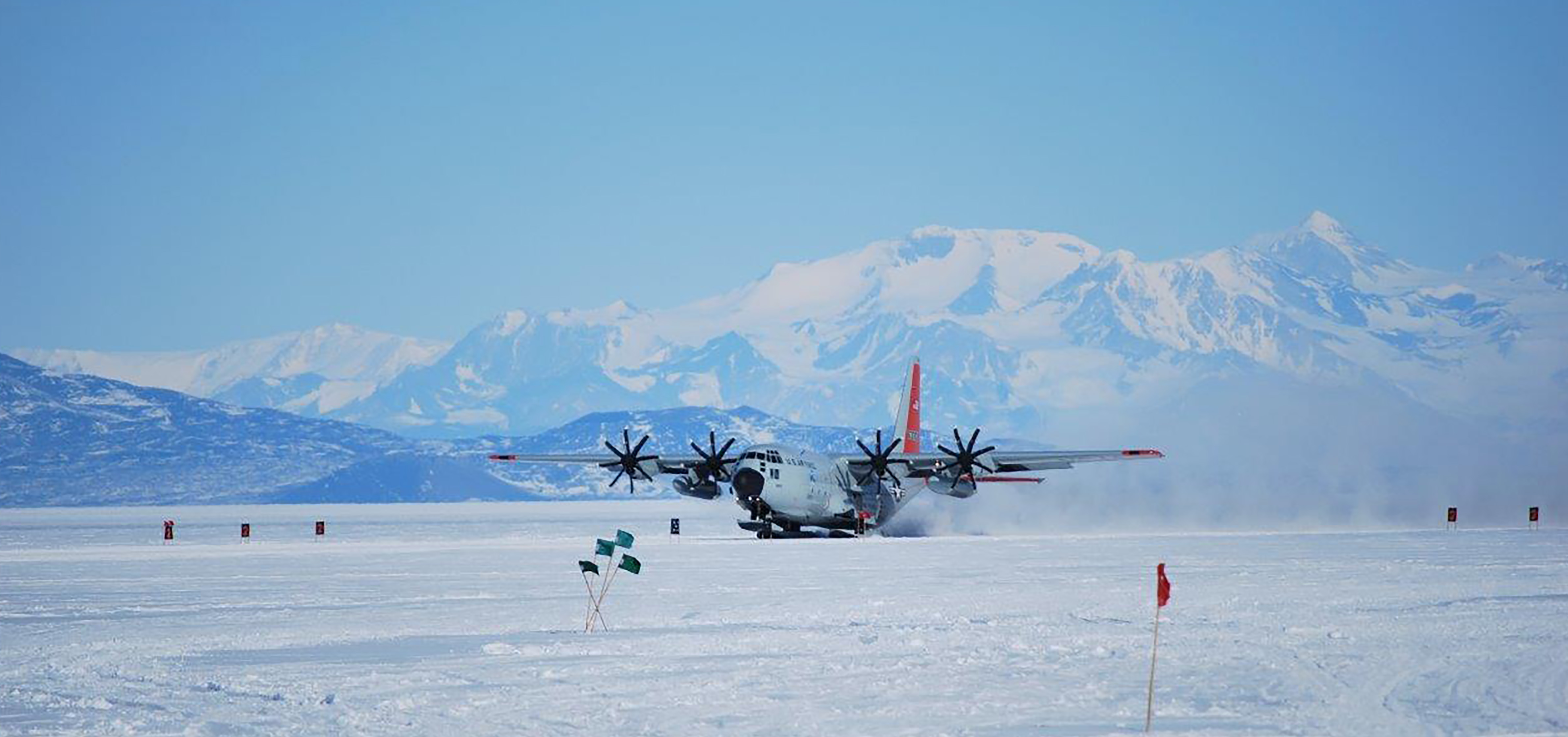 Four LC-130s and about 80 Airmen from the New York Air National Guard's 109th Airlift Wing in Scotia, New York, recently completed the third rotation of the 2016 Greenland season. Airmen and aircraft for the 109th Airlift Wing stage out of Kangerlussuaq, Greenland, during the summer months, supplying fuel and supplies and transporting passengers in and out of various National Science Foundation camps throughout the entire season and also train for the Operation Deep Freeze mission in Antarctica. The unique capabilities of the ski-equipped LC-130 aircraft make it the only one of its kind in the U.S. military, able to land on snow and ice.